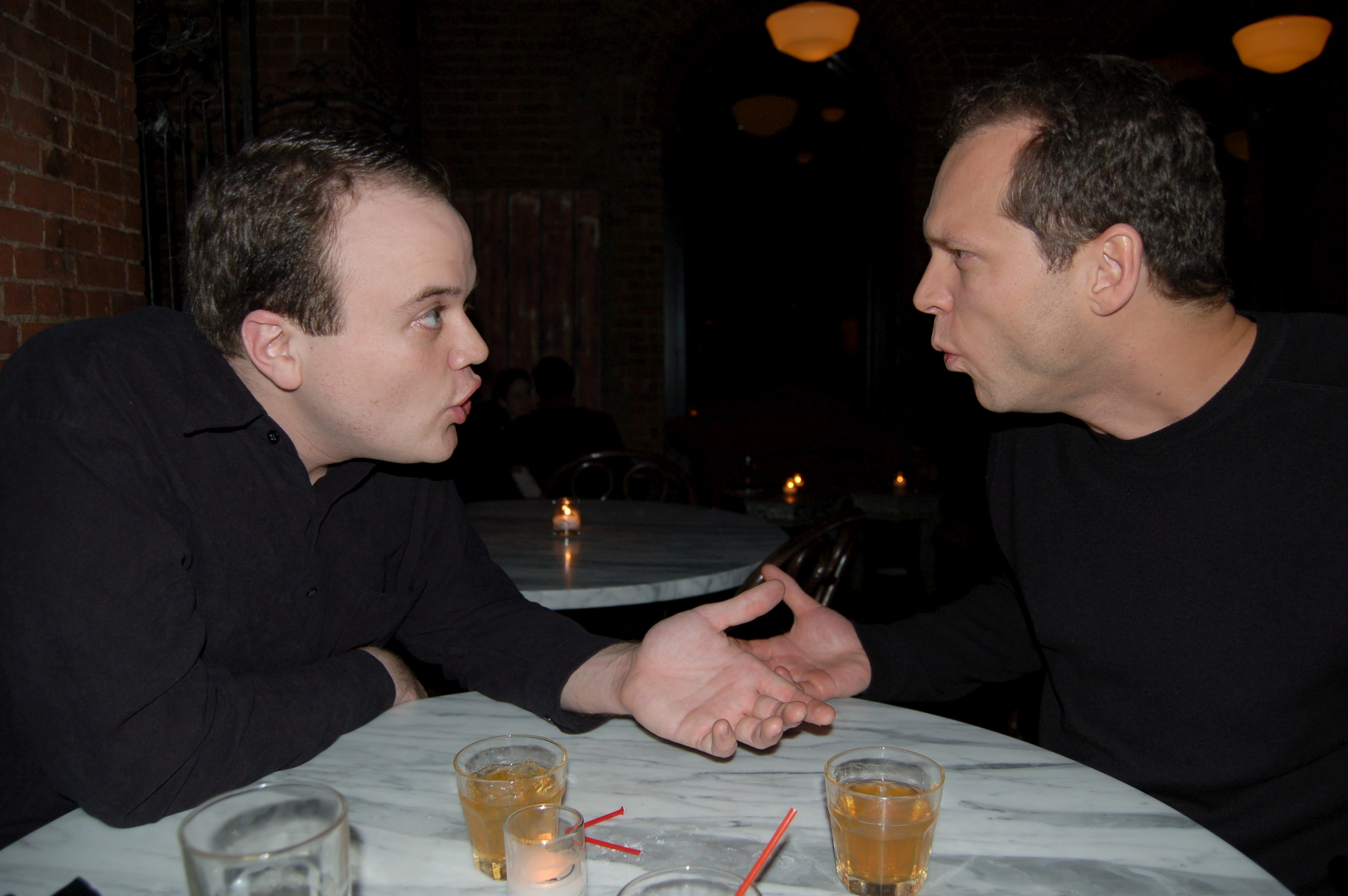 Face Off (New York, USA)